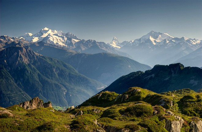 Pennine Alps from Riederalp (looking southwest), from left to right: Alphubel, Mischabel, Matterhorn, Weisshorn. In the foreground the upper Rhône valley (Goms, visible side valleys are the valley to the Simplon pass, the Saastal and the Mattertal